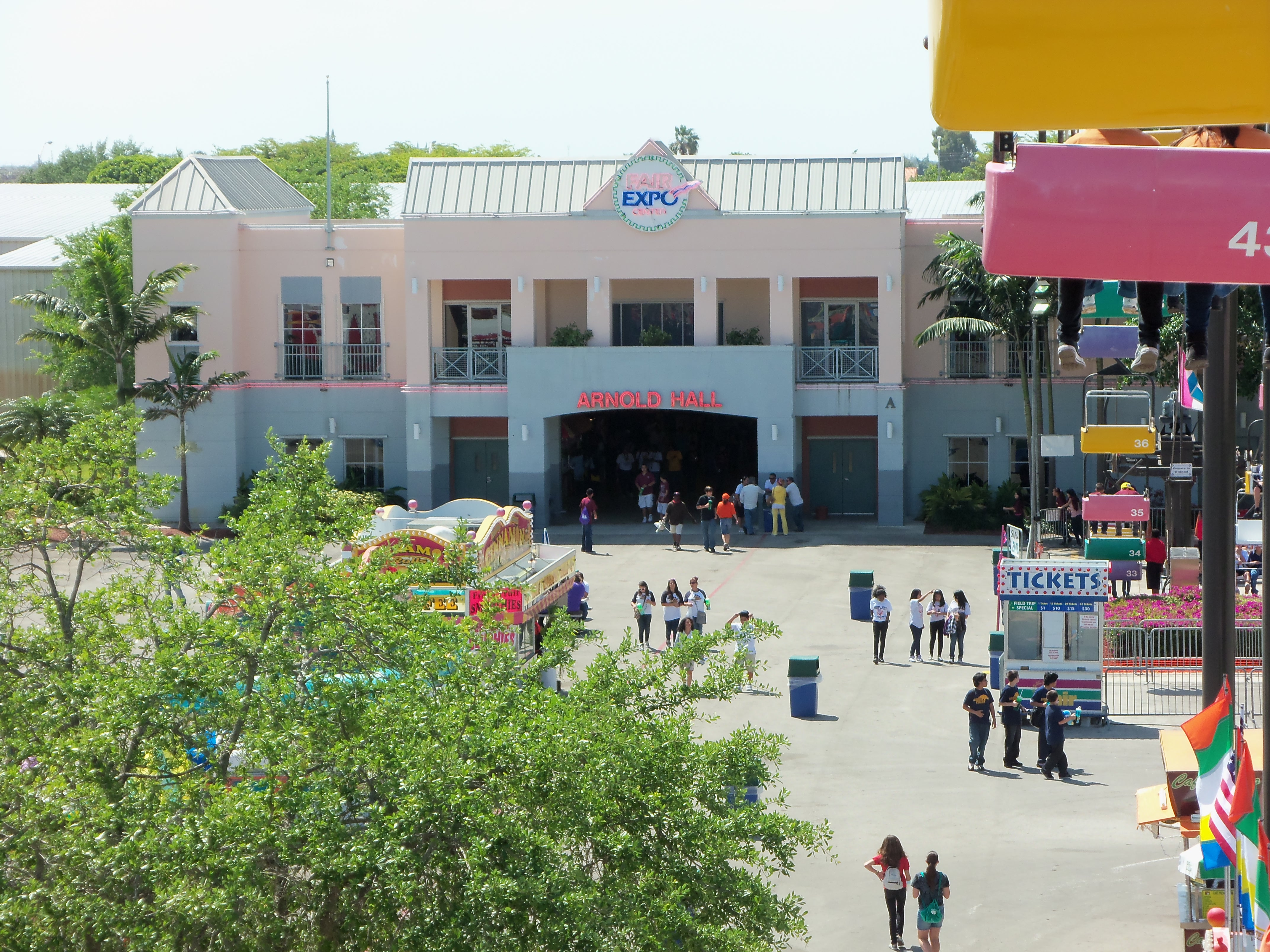 Miami-Dade County Youth Fair (Expo Center)